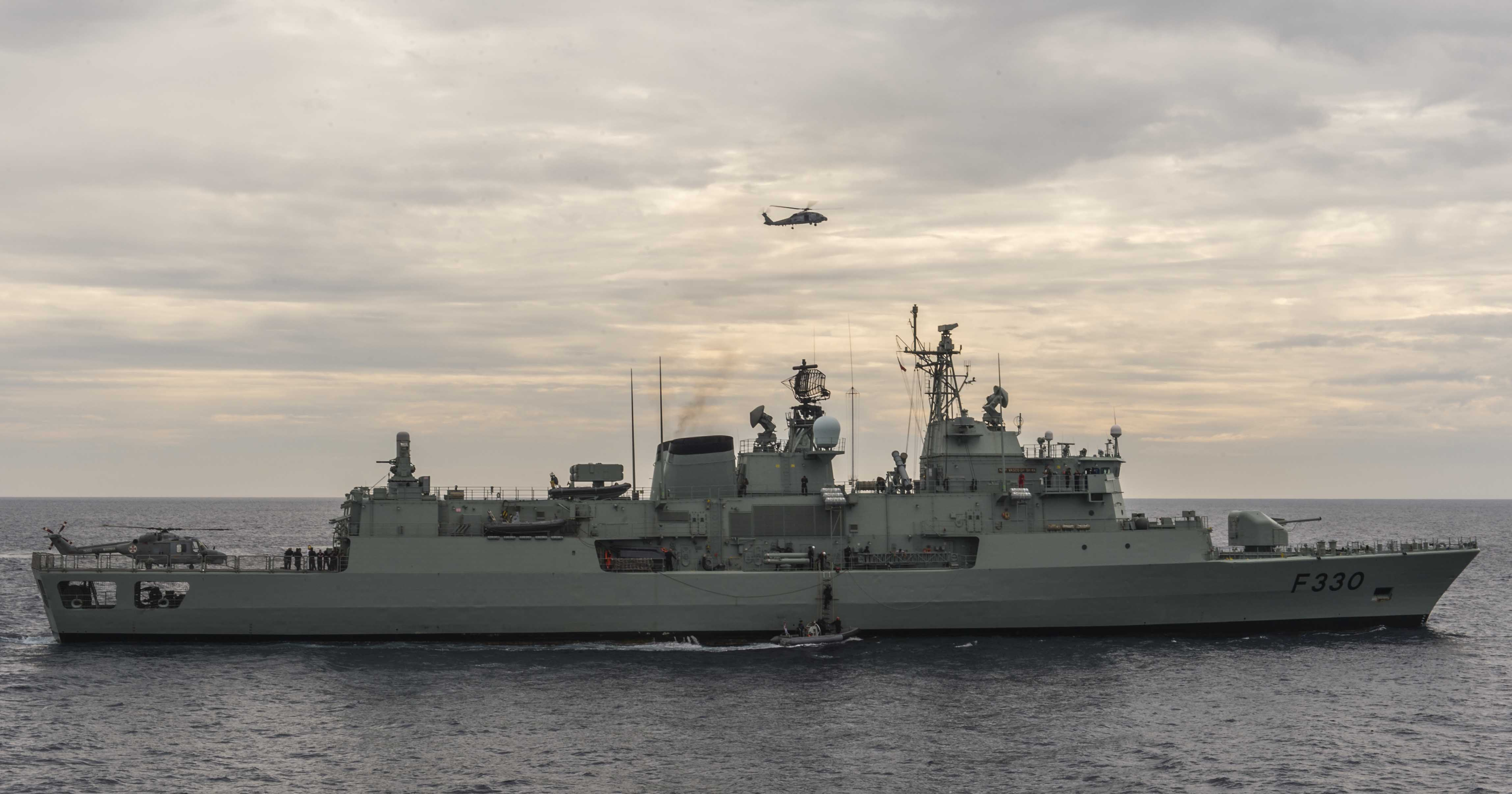 Members of Her Majesty’s Canadian Ship (HMCS) HALIFAX Boarding Team participate in a boarding exercise with NRP VASCO DA GAMA during Exercise TRIDENT JUNCTURE, on 24 October, 2015. HS2015-0838-L034-006 ©DND 2015 Photo: LS Peter Frew, Formation Imaging Services Halifax